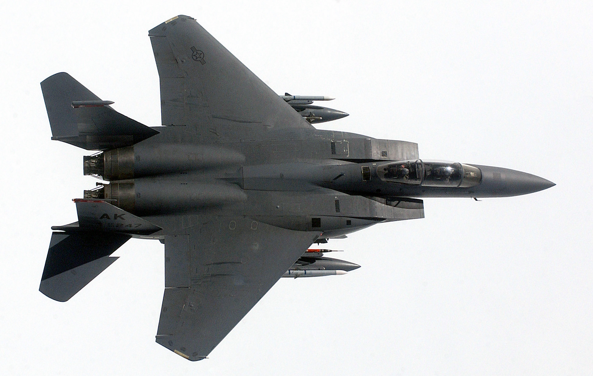 A US Air Force (USAF) F-15E EAGLE AIRCRAFT ASSIGNED TO the 90th Fighter Squadron (FS) performs a 90-degree right wing over maneuver during a simulated air-air combat exercise conducted in support of Exercise NORTHERN EDGE 2002. The AIRCRAFT is armed with two AIM-120 Advance Medium Range Air-TO-Air Missiles (AMRAAM), one AIM-9 Sidewinder Missiles and one SN/1387 Advanced Targeting Pod (ATP).